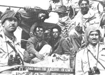 Jewish prisonners after the Fall of Gush Etzion (British Mandate of Palestine)